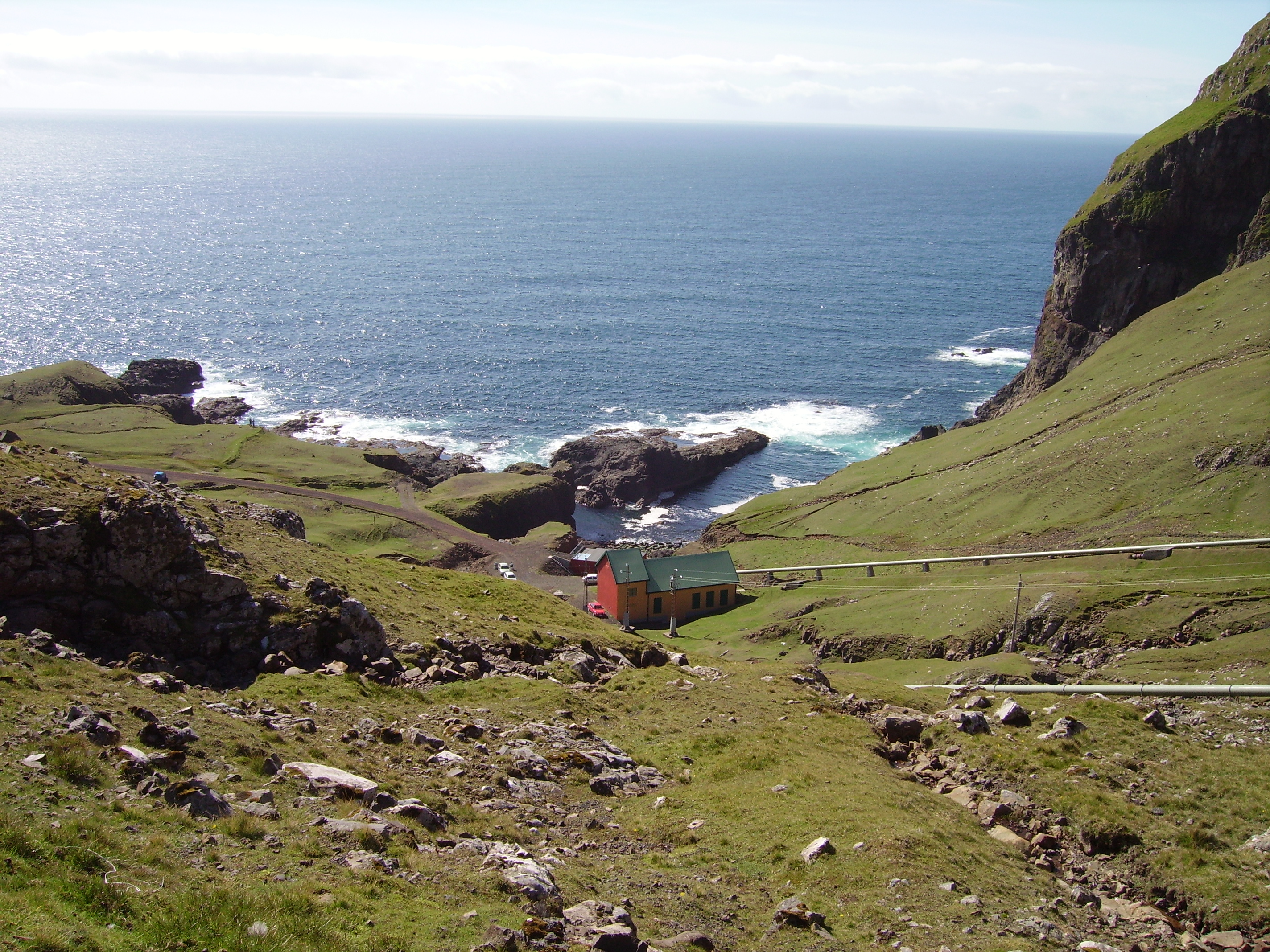 The hydro-electric powerplant in Botni was built in 1920-21, ready to use in 1921. The people in Vágur celebrated the opening of this first electric power plant in the Faroes on 18 July 1921. The mayor, Petur Dahl, also known as Petur á Gørðunum, arranged a party in the public school, where he switched on the ligths for the first time. The hydro-electric powerplant in Botni is still in use, but in 1982 an additional powerplant was built on Oyrarnar in Vágur, next to the sea on the southern side of the fjord. These two powerplants provide electricity to the island Suðuroy, which is not connected to the main area due to large distance. When they have a black-out in the main area of the Faroes, Suðuroy still has power and vice-versa. In 1963 Elfelagið Suðuroy joined SEV, which is for the whole country (Faroe Islands). Føroyskt: Vatnorkuverkið í Botni (elektrisitetsverkið í Botni), Botnur í Vági, var bygt í 1921 og var tað fyrsta av sínum slag í Føroyum. Tað er enn í nýtslu og veit streym til borgarar og virki í Suðuroynni, saman við elverkinum á Oyrunum í Vági og elverkinum í Trongisvági. Vatnorkuverkið í Botni er tað einasta vatnorkuverkið í Suðuroynni. Onnur vatnorkuverk eru: Heygaverkið, Fossáverkið, Mýruverkiðm Eiðisverkið og Strond. Tað var Vágs kommuna ið bygdi verkið. Borgarstjóri tá var Petur Dahl, eisini kendur sum Petur á Gørðunum.